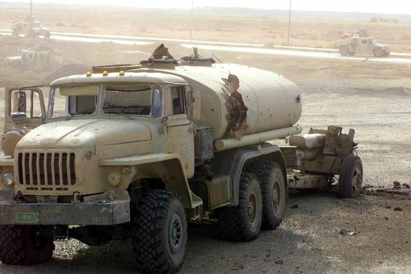 A damaged Iraqi fuel tanker north of the An Nu'maniyah bridge on Highway 27, during Operation IRAQI FREEDOM.